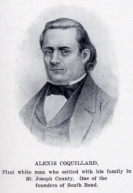 Alexis Coquillard, founder of South Bend